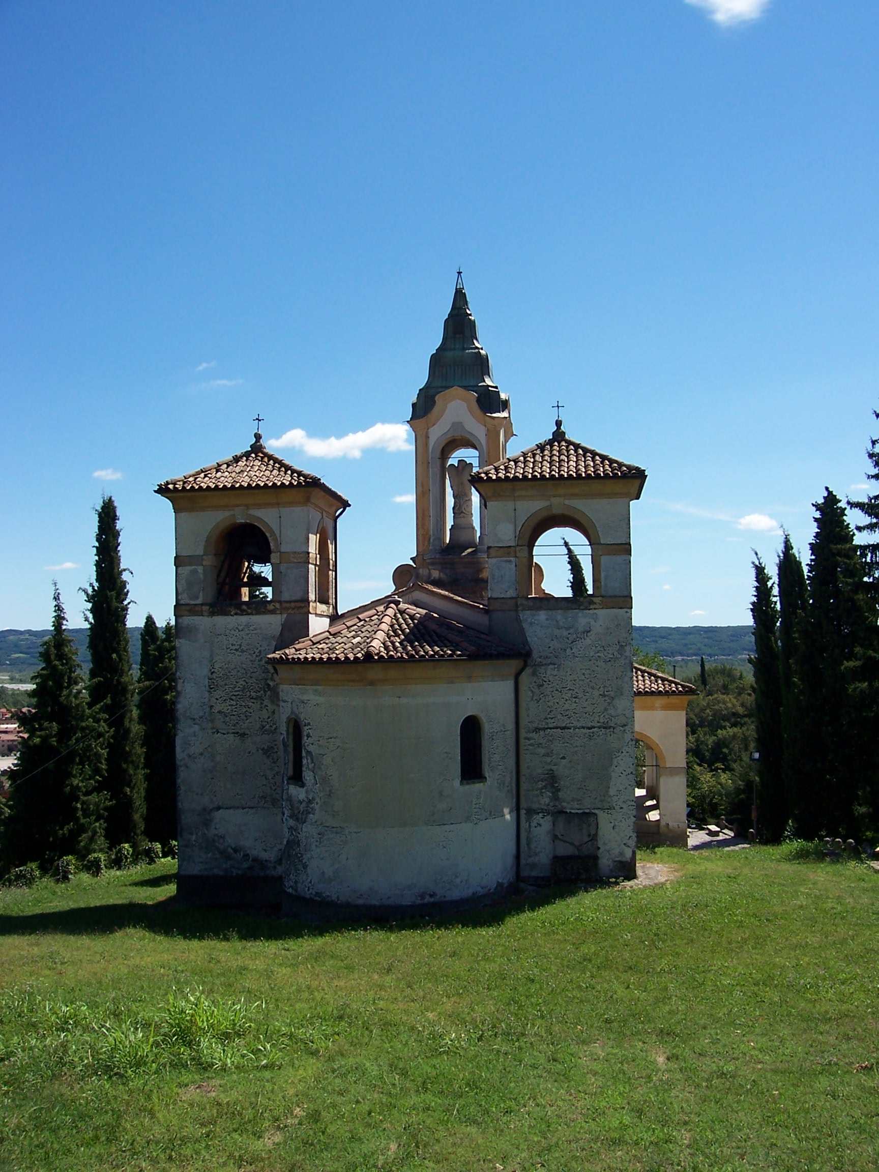 View of Vidor Castle, Treviso provinceEsperanto: Vidaĵo de la Kastelo, Treviso provinco